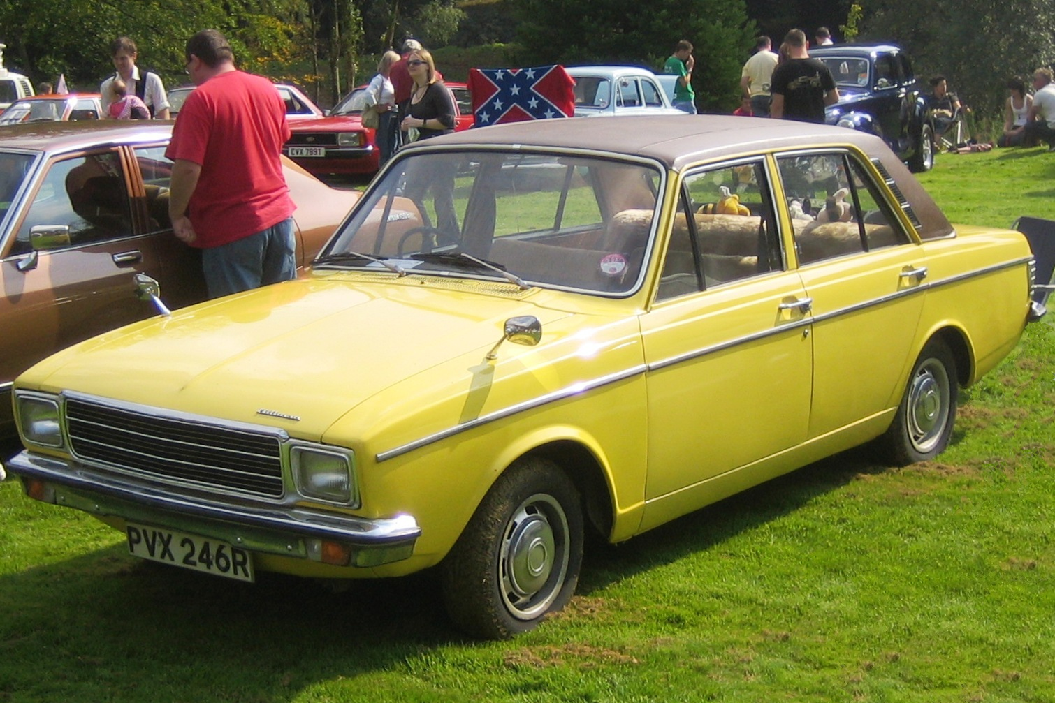 Hillman Hunter (post facelift) at Castle Hedingham